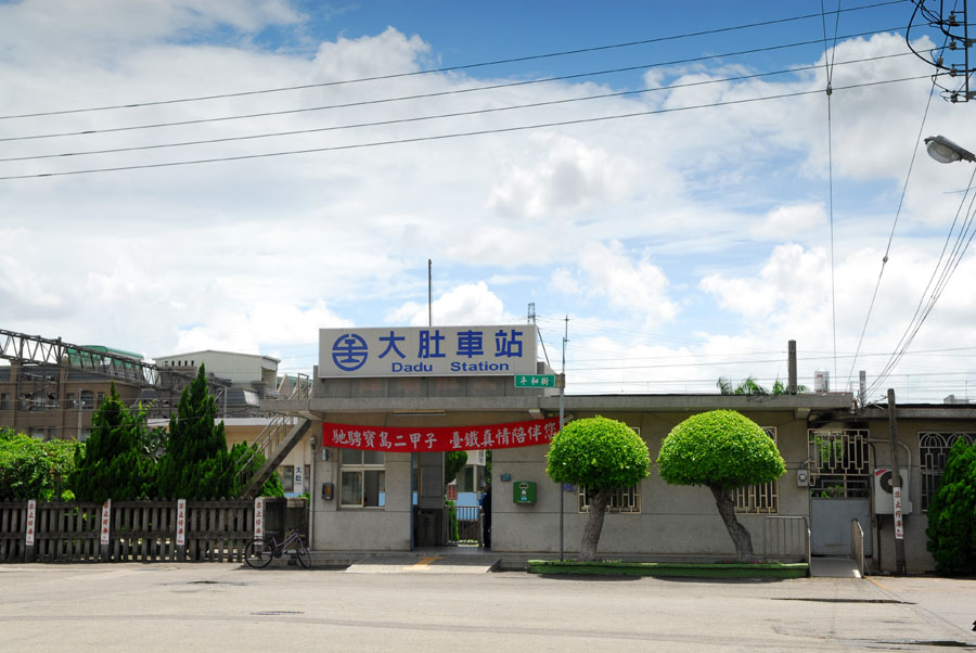 LongJing Station is a local train station of Taiwan's Western main rail line. It's the main station of DaDu Township, TaiChung County.